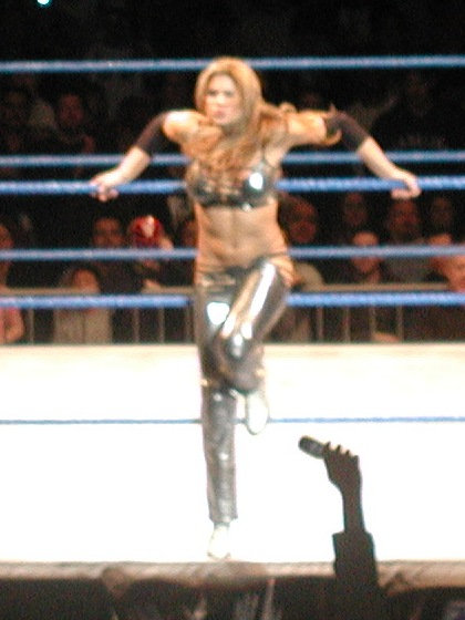 Jackie Gayda at a WWE Friday Night SmackDown live event. Allstate Arena, Rosemont, January 62005.